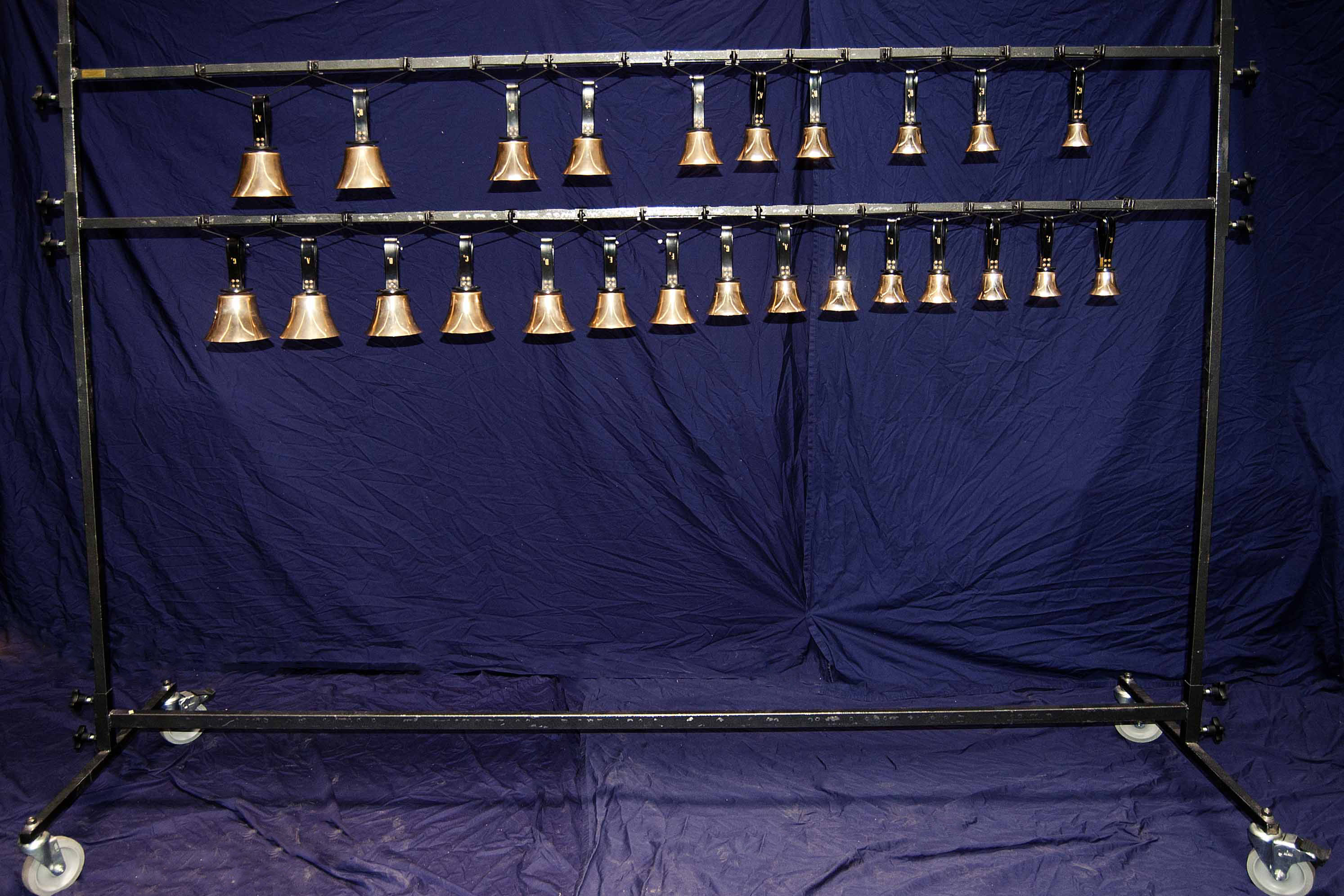 Hand bells hung from stand (from Emil Richards Collection). Range G4-G6